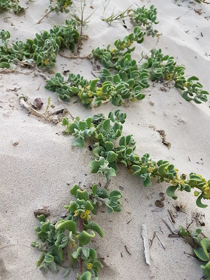 Tetragonia decumbens Mill. - beach at Nature's Valley, South Africa